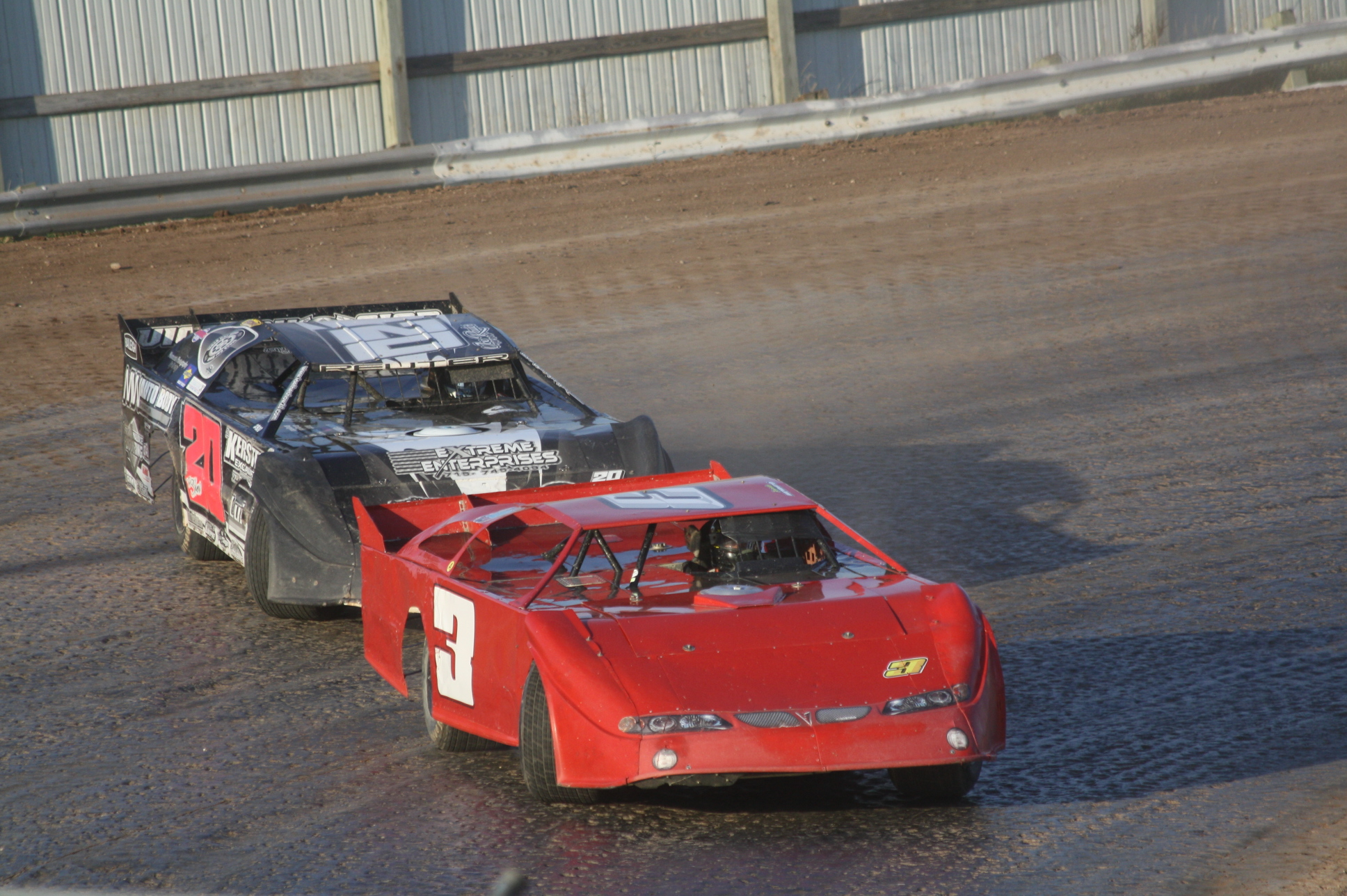 Dirt Late model stock cars racing on a slick dirt track as noted by the shiny black surface. The track is Calumet County Speedway in Chilton, Wisconsin, USA.